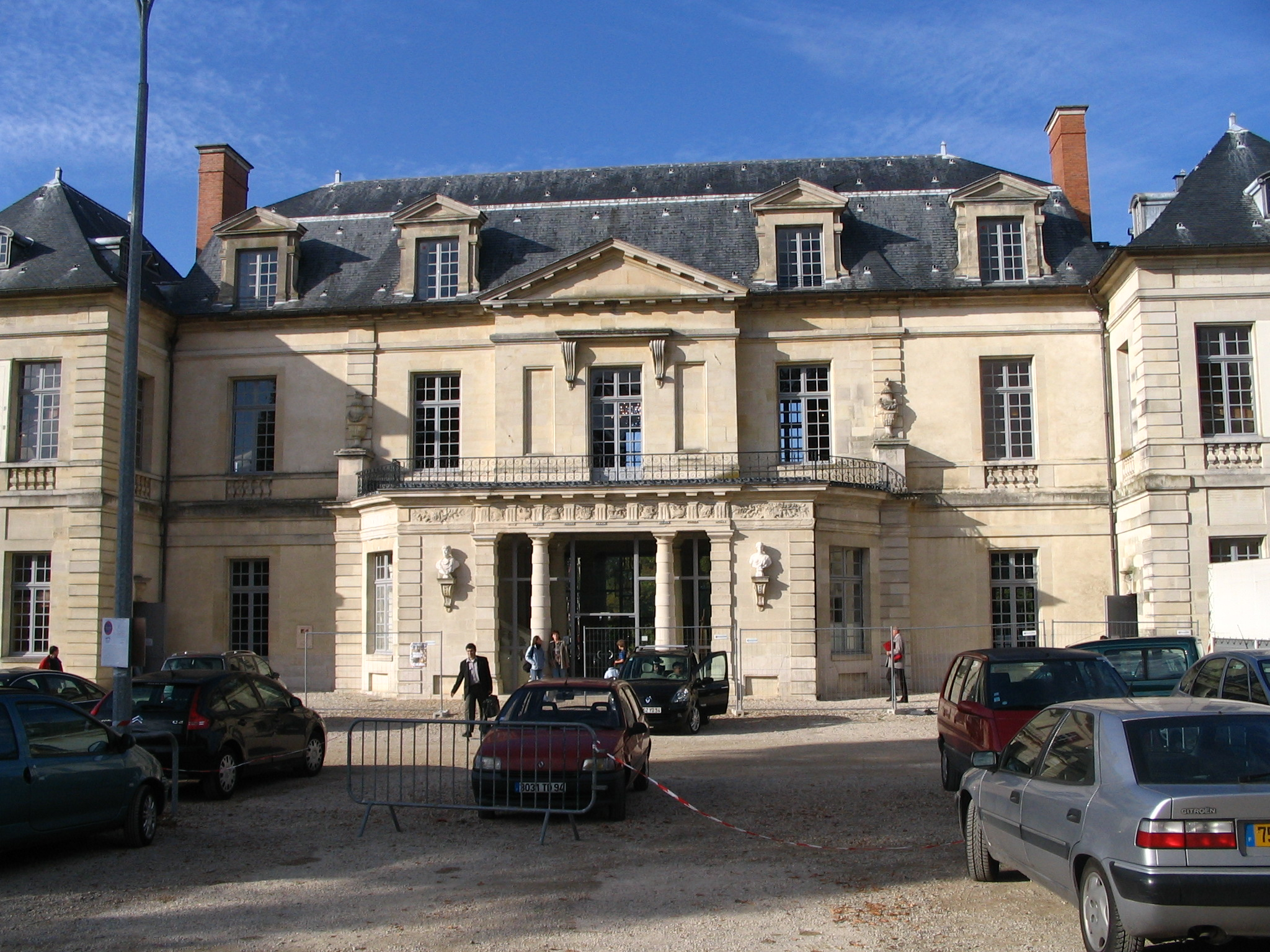 The Castle of Sucy, in Sucy-en-Brie, Val-de-Marne, France.